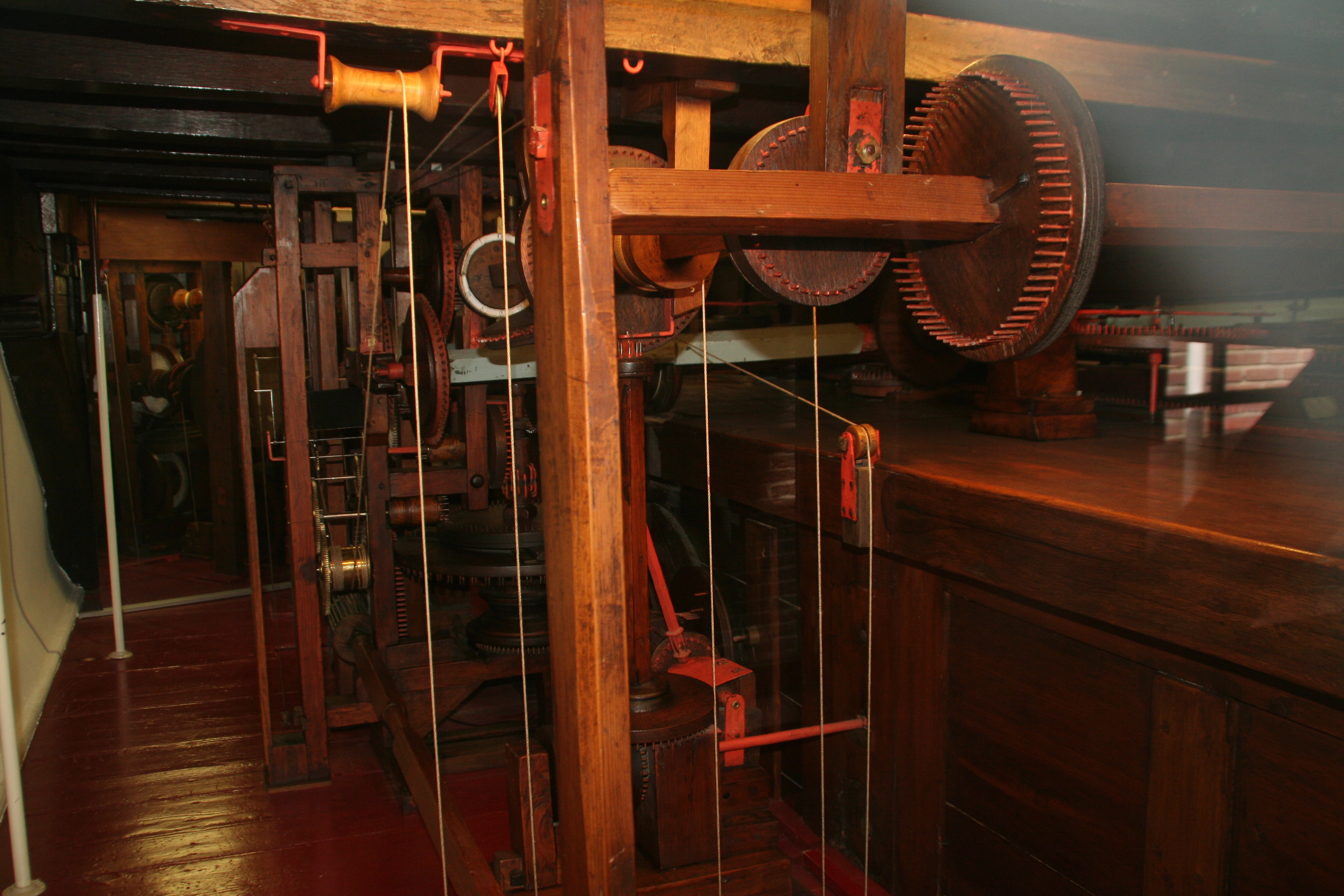 pendulum that keeps the whole thing going